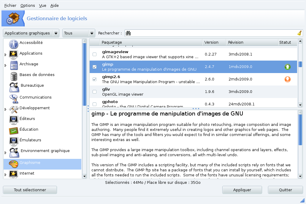 Screenshot of Mandriva's software manager RPMDrake